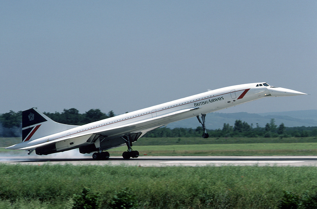 British Airways Concorde G-BOAC